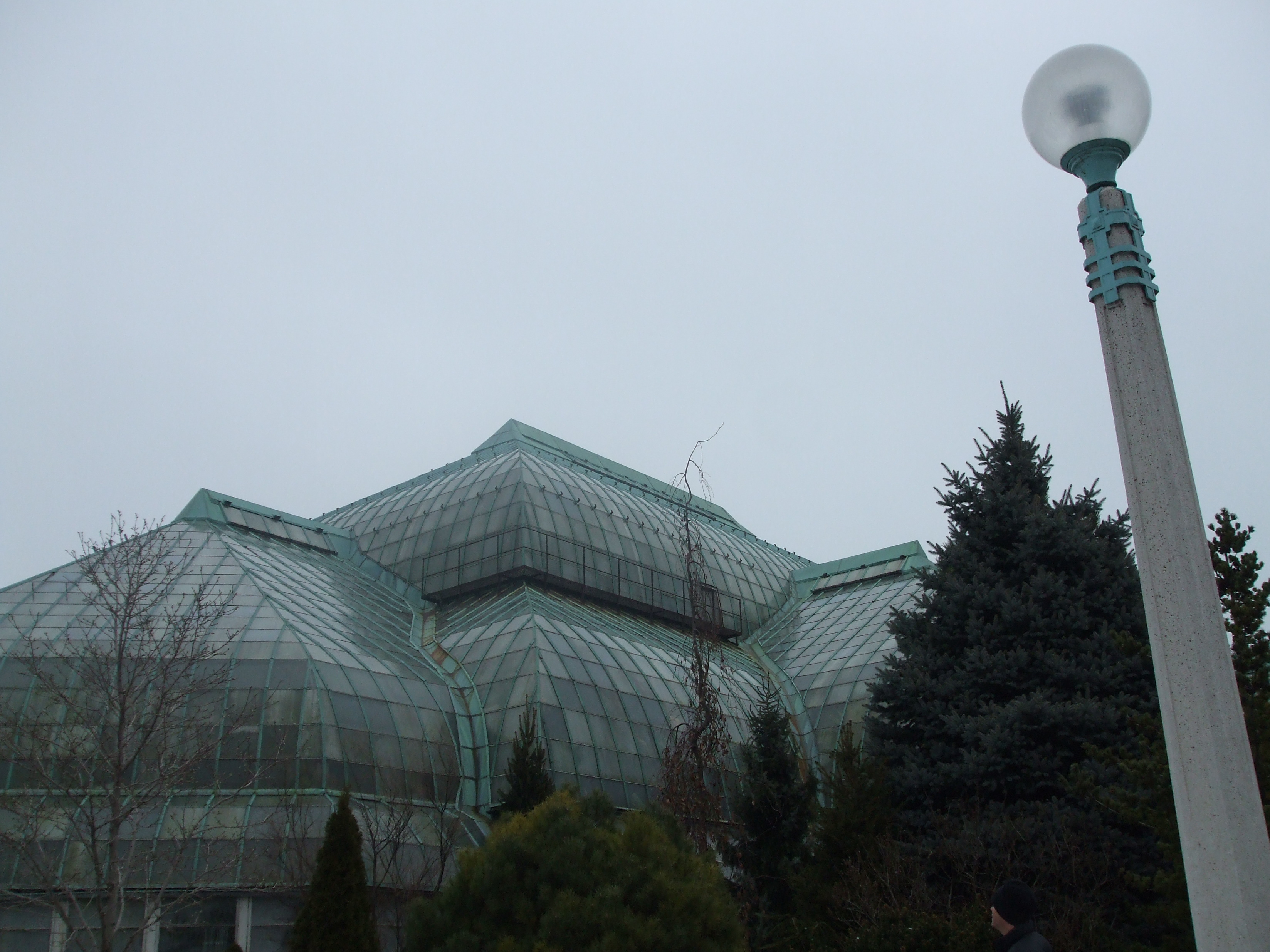 The Lincoln Park Conservatory, a large greenhouse in Chicago, in Winter